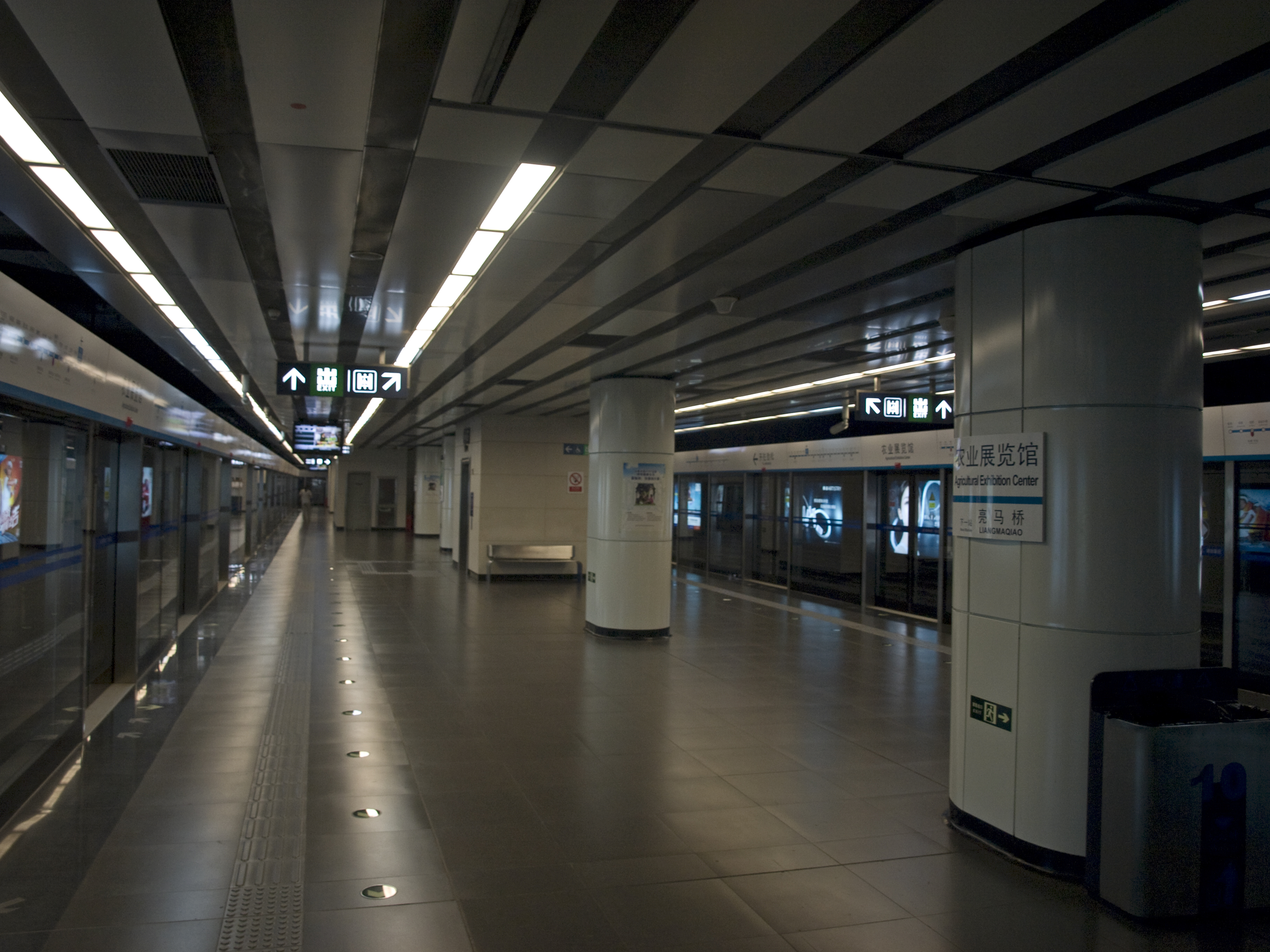 Agricultural Exhibition Hall station, Beijing Subway